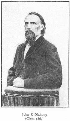 John O'Mahony, founder of the Fenian Brotherhood in the United States.